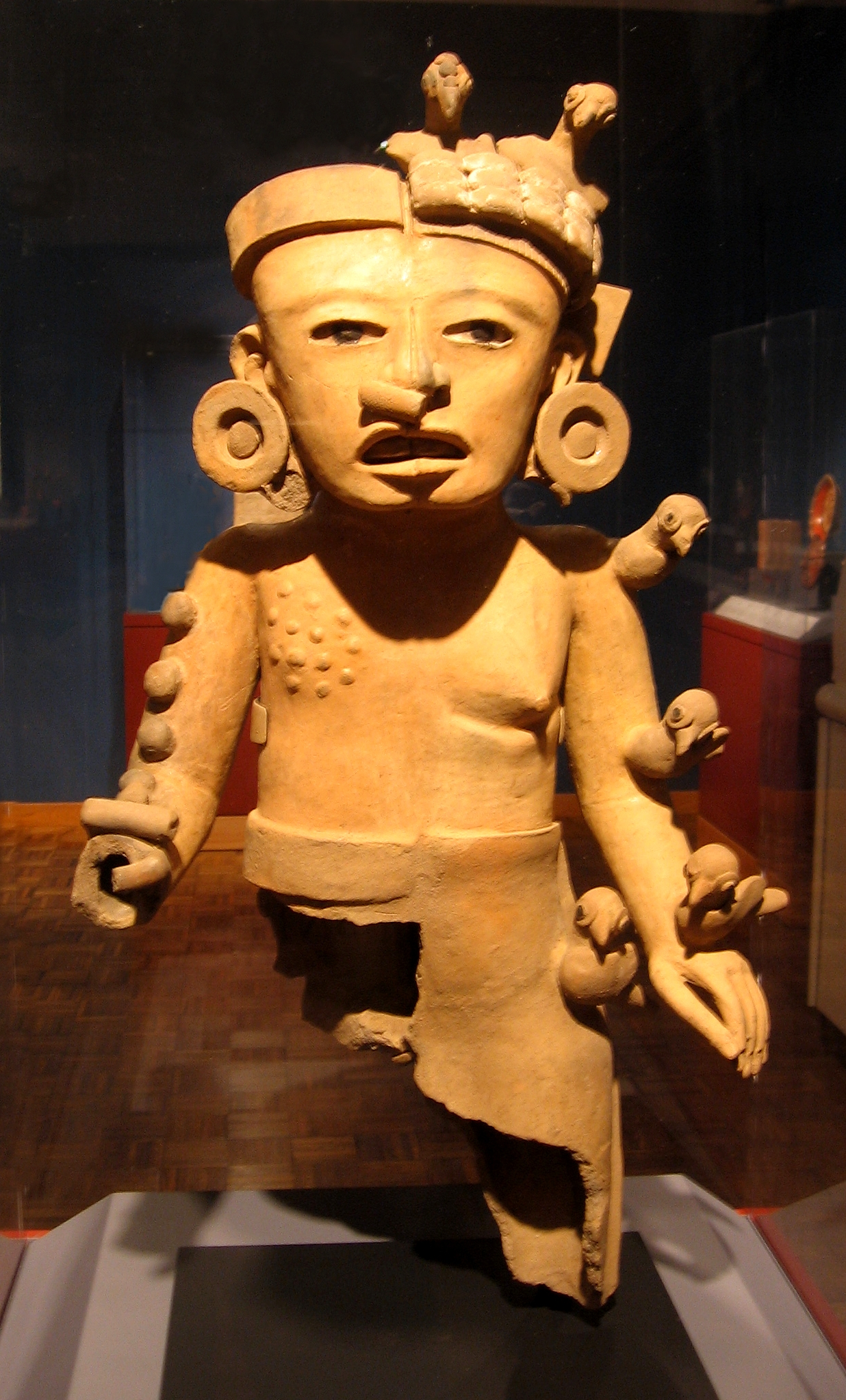 Male-female duality figure from Remojadas. 200-500 AD. Ceramic, with black resin. From the Snite Museum.